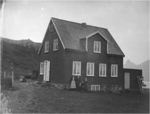 Teigarhorn house in eastern Iceland where the photographer Nicoline Weywadt and her family lived in the late 19th century.